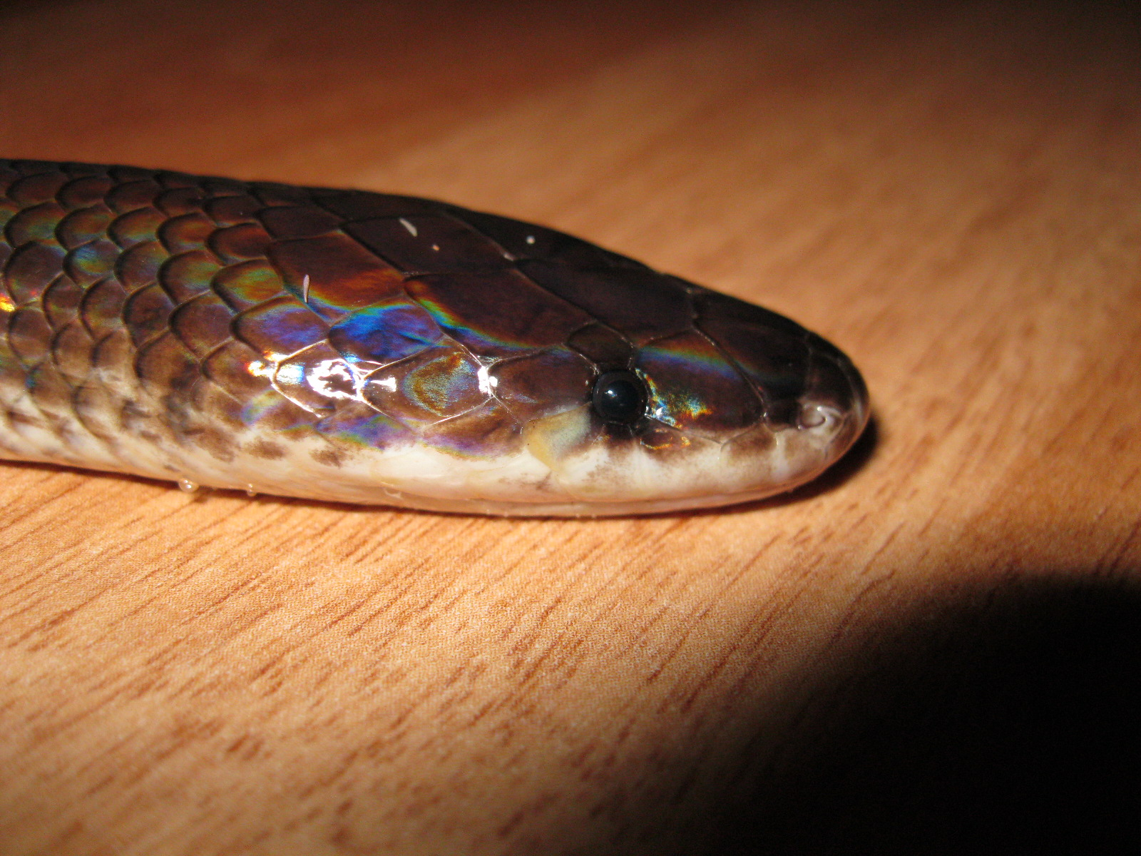 Head of Xenopeltis Unicolor